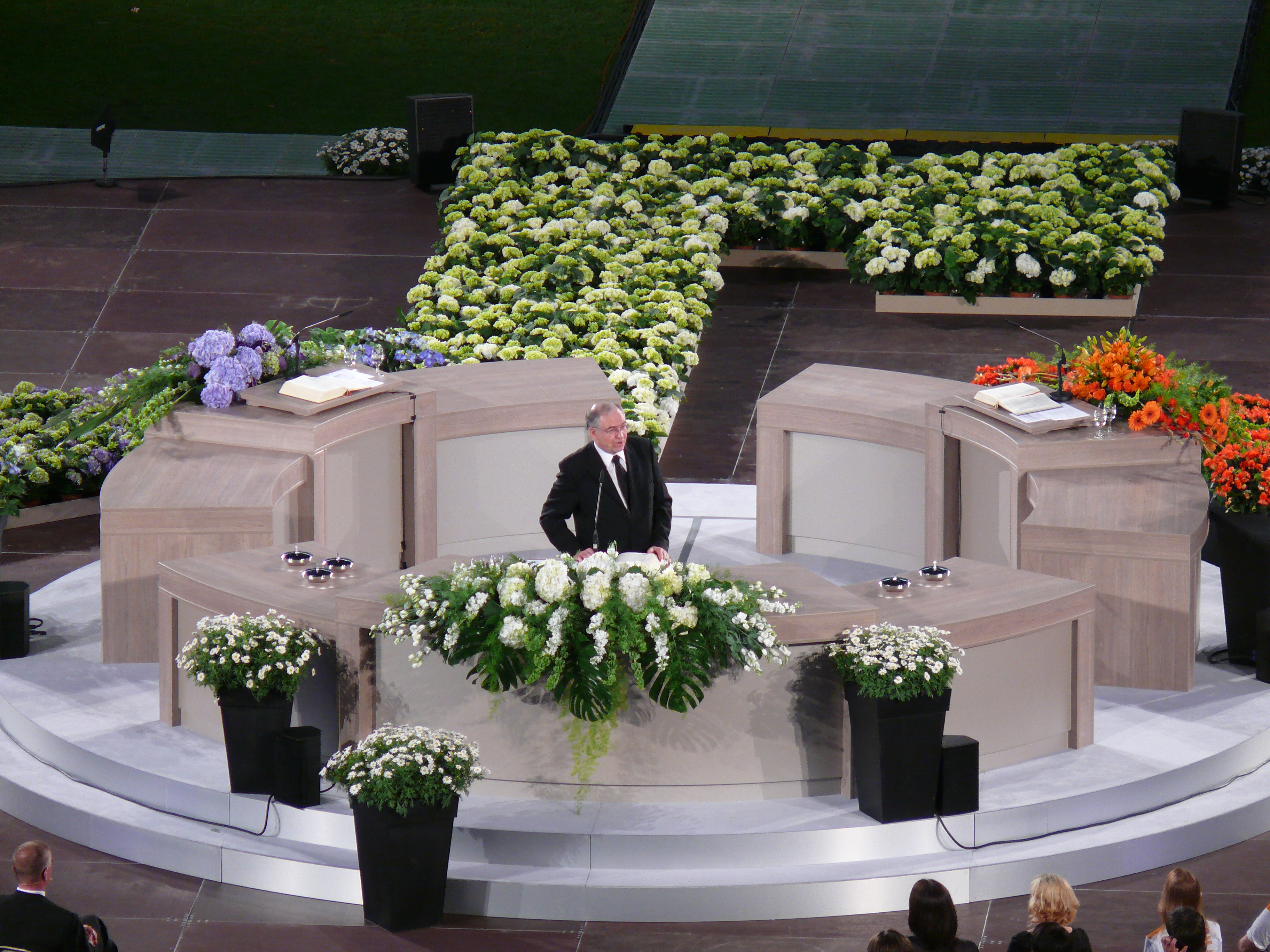 Chief Apostel Leber on the divine service of the european youth day 2009